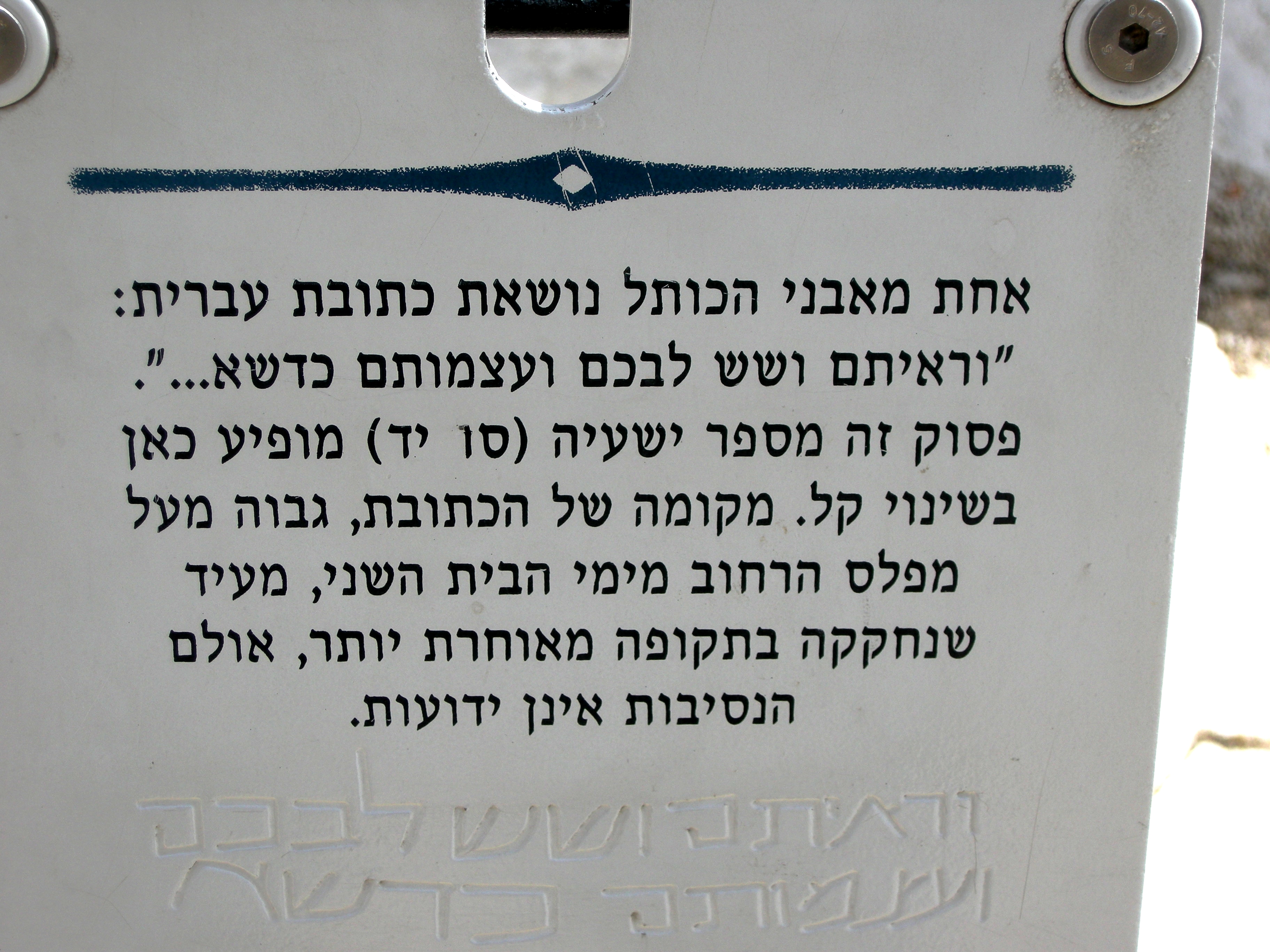 Old Jerusalem, Western Wall : The Isaiah Stone, located under Robinson's Arch, has a carved inscription in Hebrew from Isaiah 66:14: וראיתם ושש לבכם ועצמותיכם כדשא תפרחנה ("And when ye see this your heart shall rejoice and your bones shall flourish like an herb").